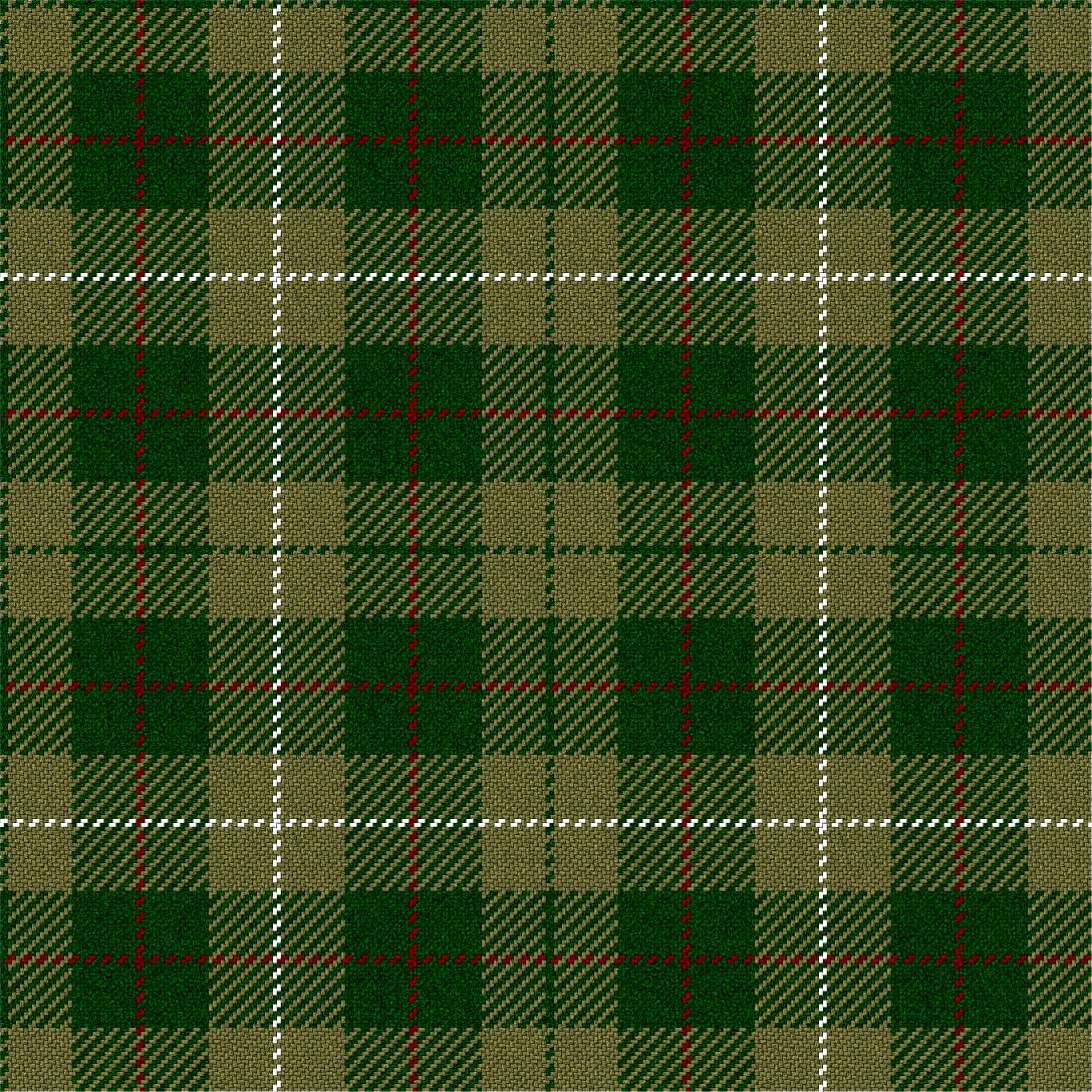 The MacKinnon Hunting tartan. This tartan is based upon the MacKinnon tartan which appears in the dubious Vestiarium Scoticum, with the difference mainly being the V.S. red substituted with brown. The tartan was registered with Lyon Court in 1960. [1]